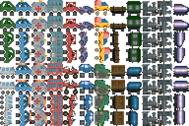 Example of sprites